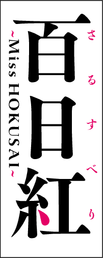 Miss Hokusai anime logo.